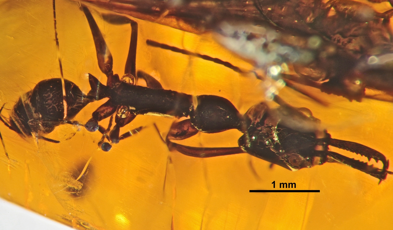 Profile view of the Anochetus conisquamis type specimen "SMNSDO3955"